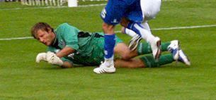 Carlo Nash, English goalkeeper